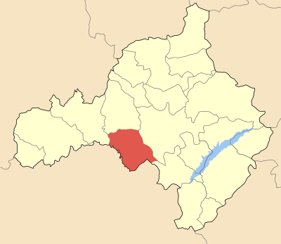 Locator map of Siatistas municipality (Δήμος Σιάτιστας) at Kozani perfecture, Greece.